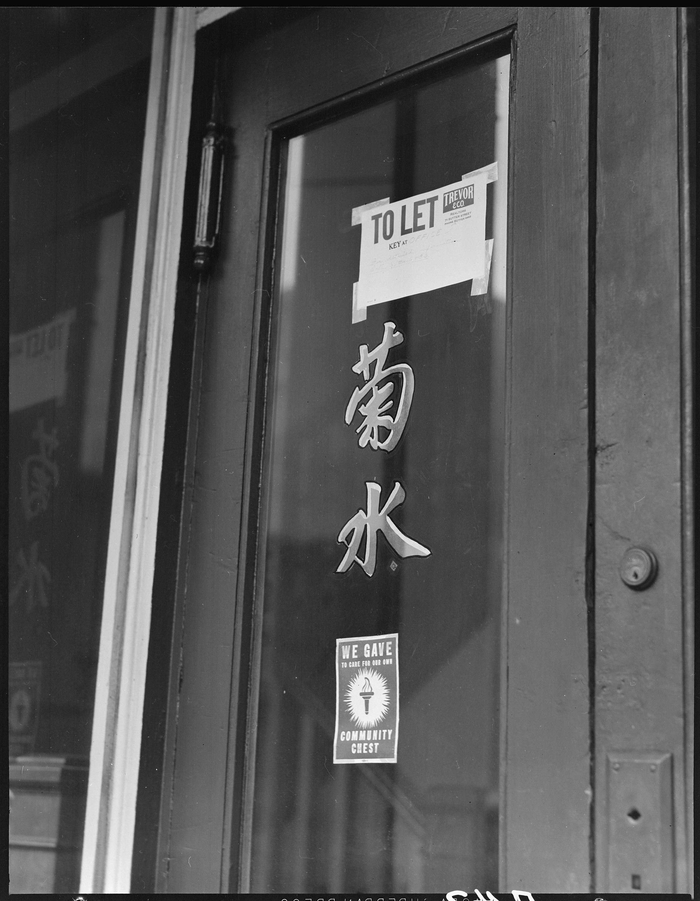 Scope and content: The full caption for this photograph reads: San Francisco, California. Entrance to a restaurant vacated by a proprietor of Japanese descent prior to evacuation. Evacuees of Japanese ancestry will be housed in War Relocation Authority centers where they will spend the duration.